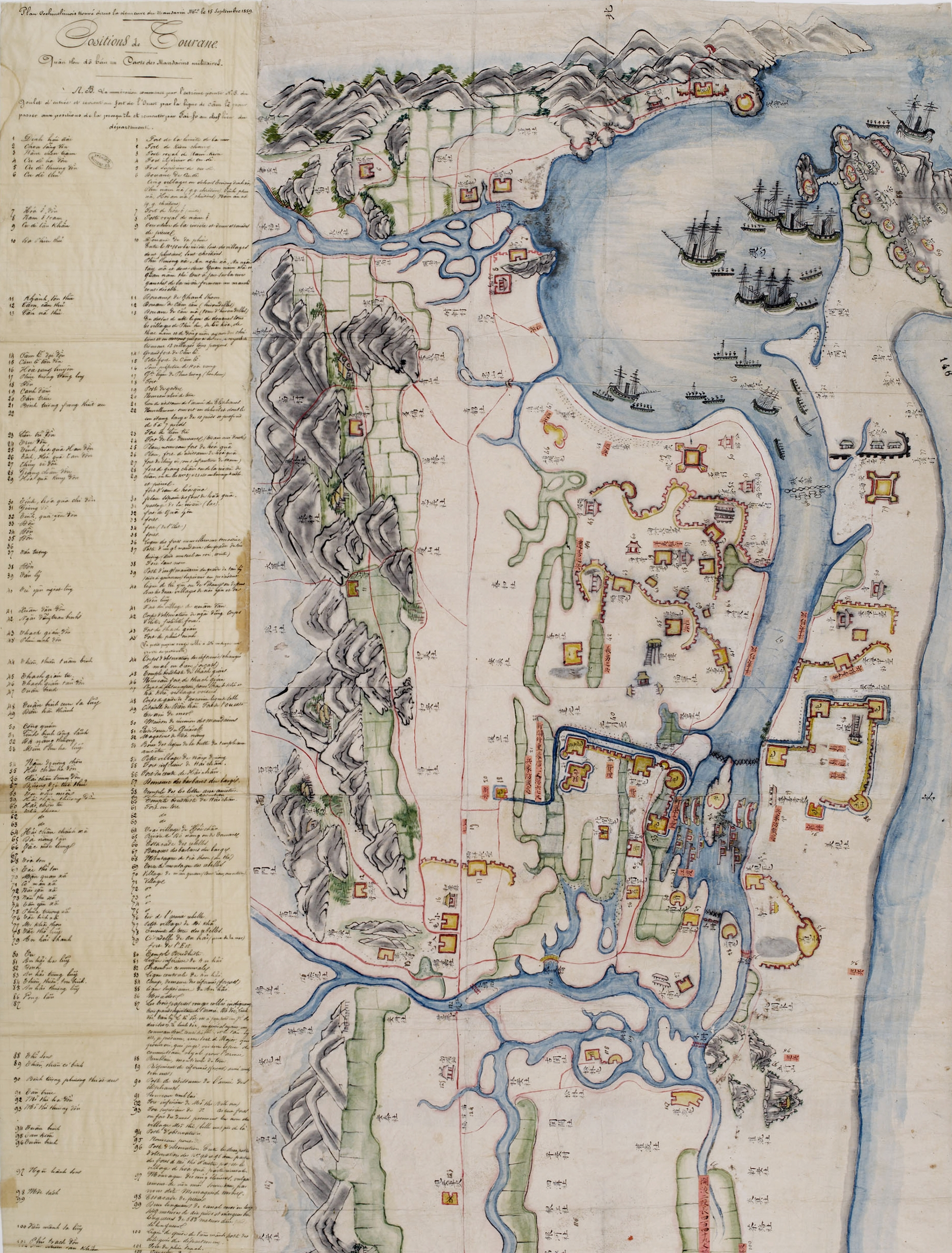 Map of Tourane (Da Nang) found in the home of a mandarin of the Vietnamese military in 1859 (part 1). The map itself is at right, with annotations in Sino-Vietnamese script; a legend is at left, written in French.